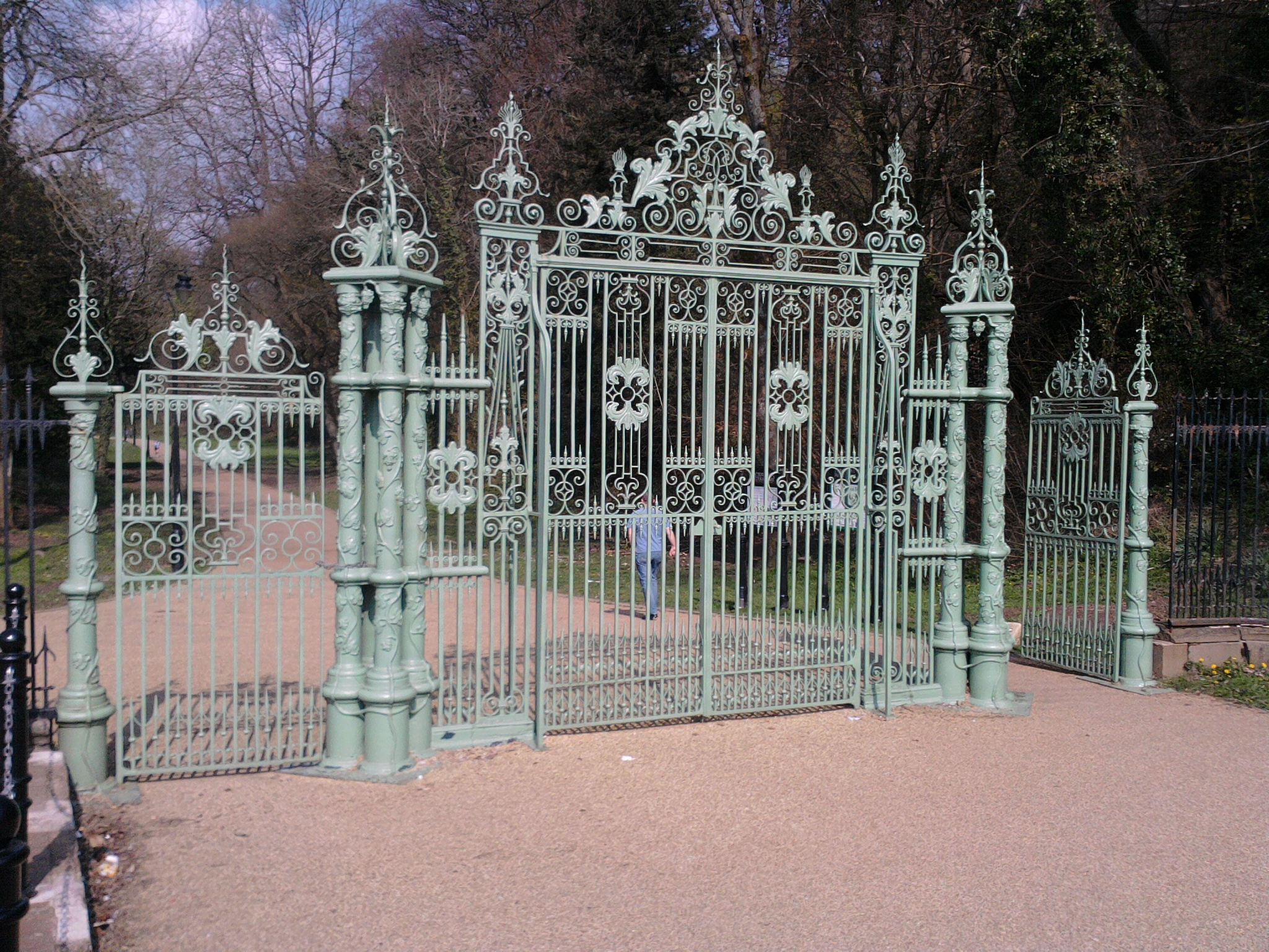 The renovated gates at the entrance of Pontypool Park, Pontypool, Wales